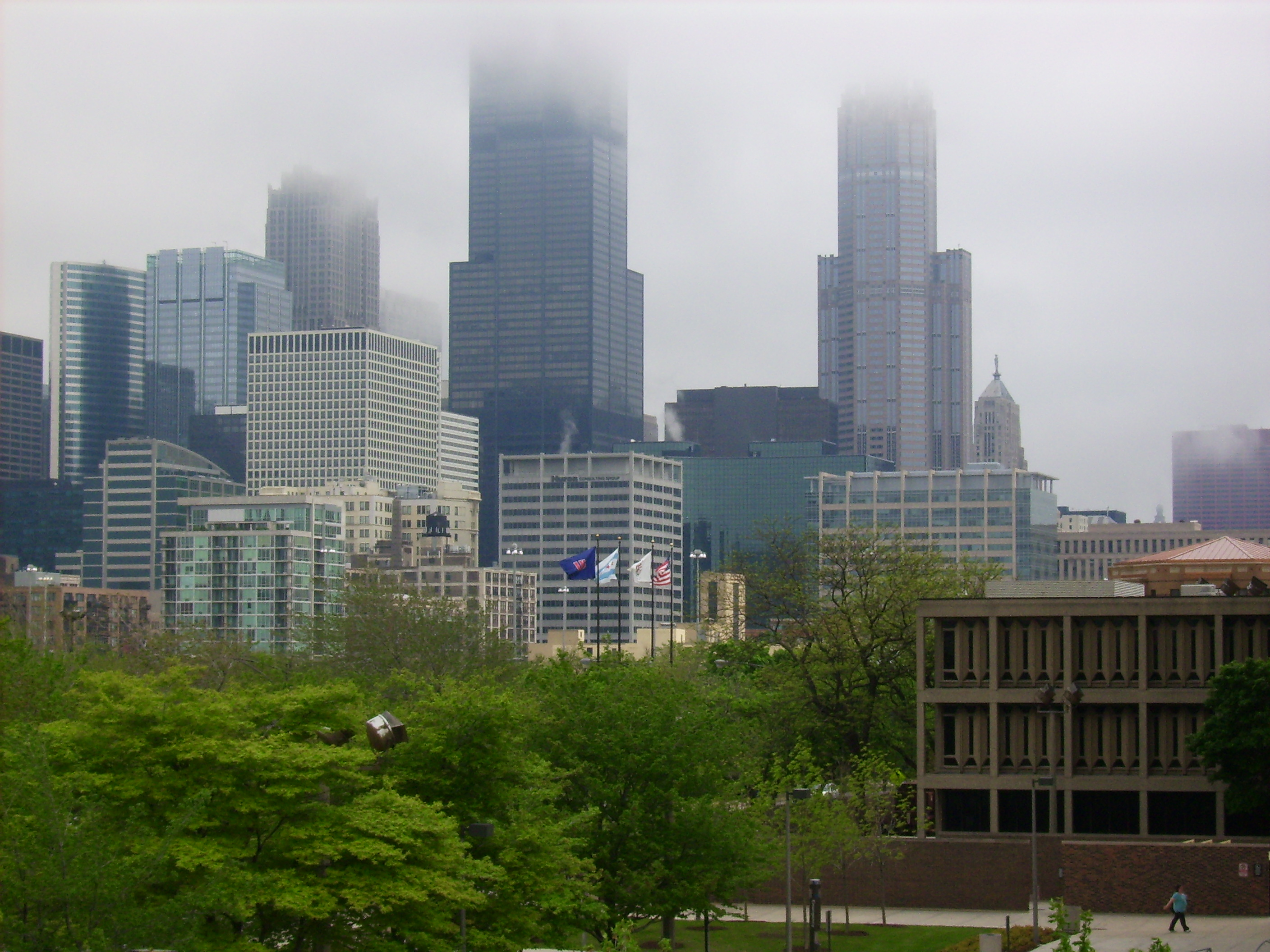 Chicago downtown covered in spring fog as seen from University of Illinois at Chicago (UIC) campus